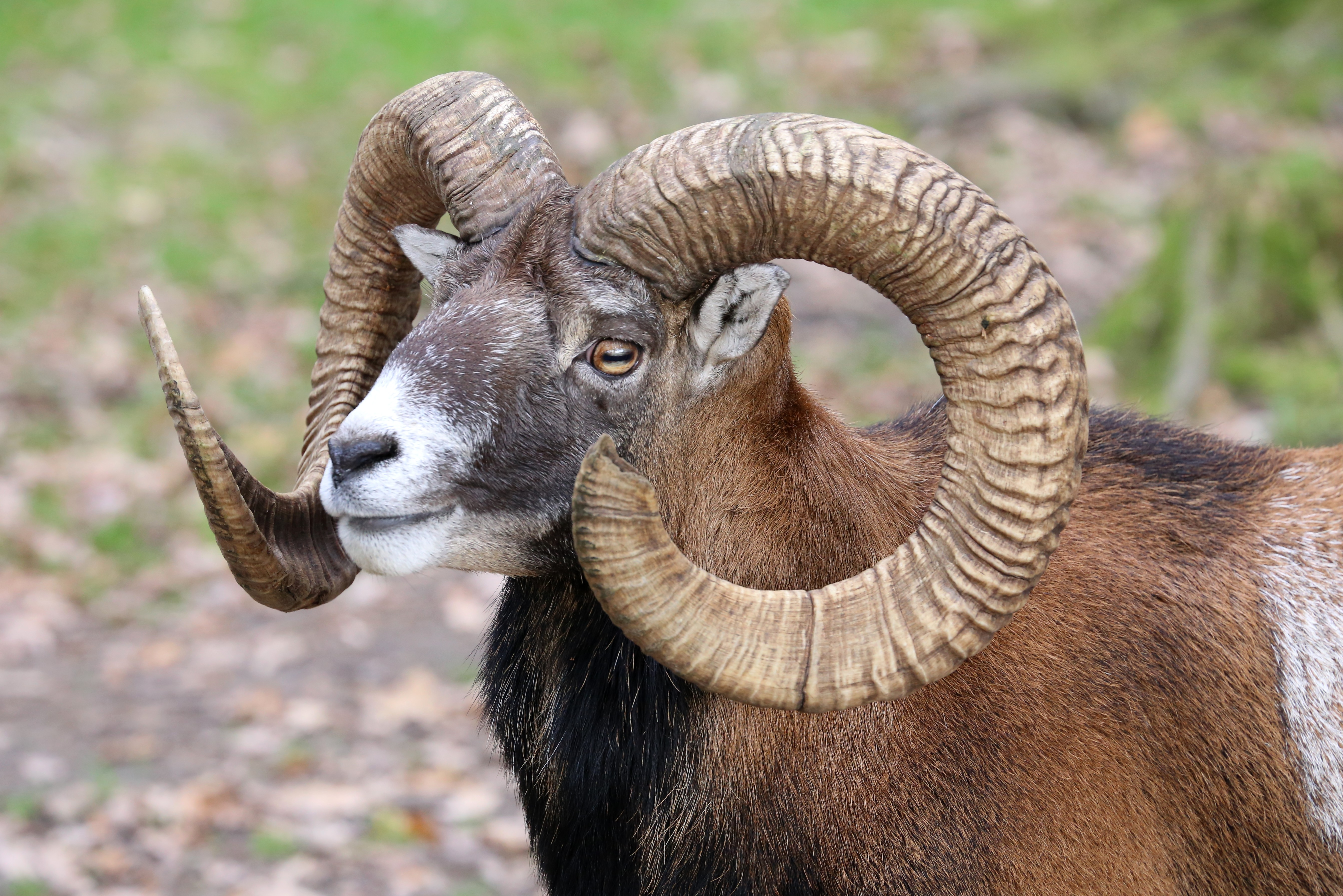 Mufflons (Ovis orientalis musimon) im Wildpark Poing